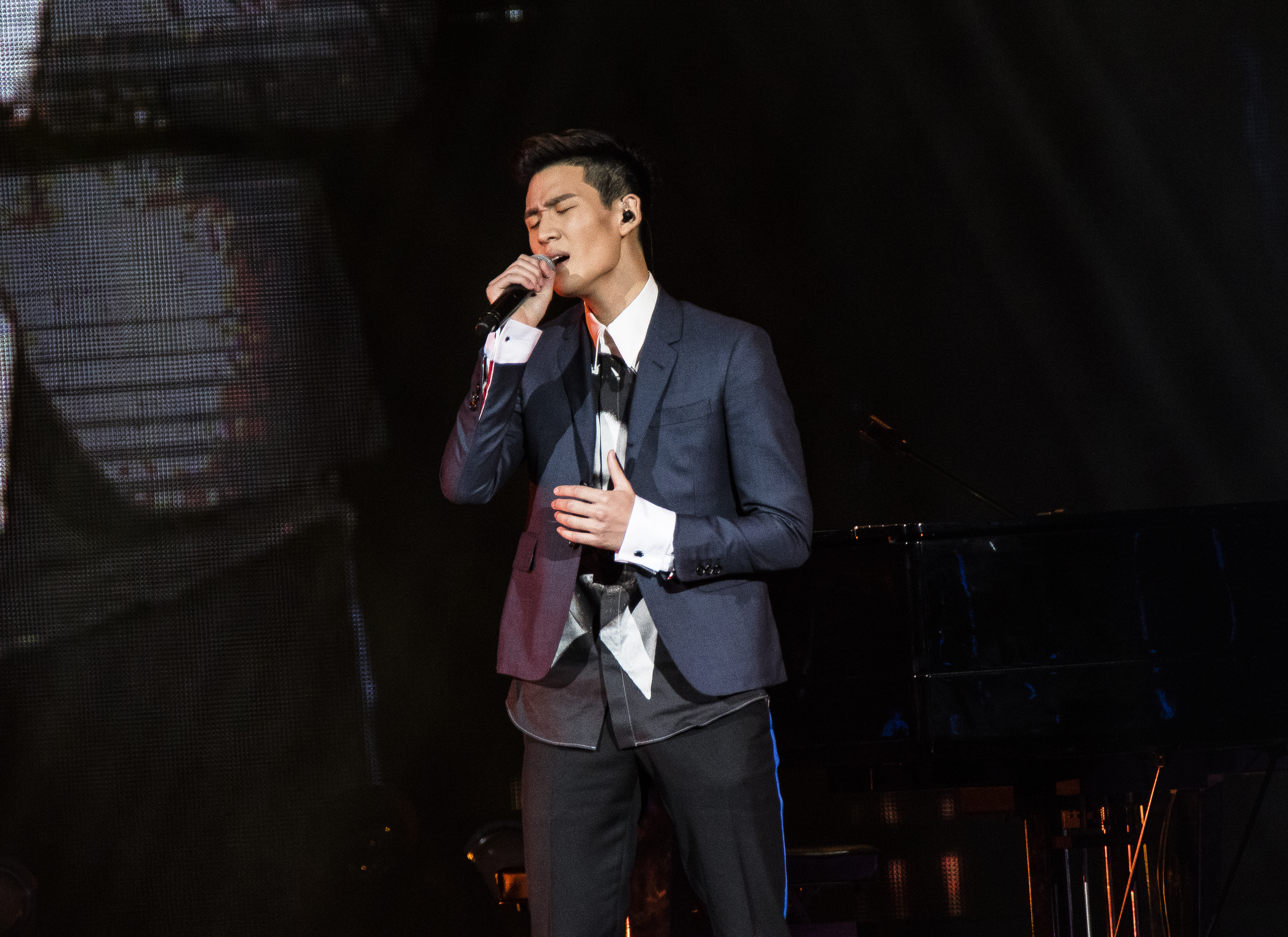 Eric Chou at 第十屆 KKBOX 風雲榜